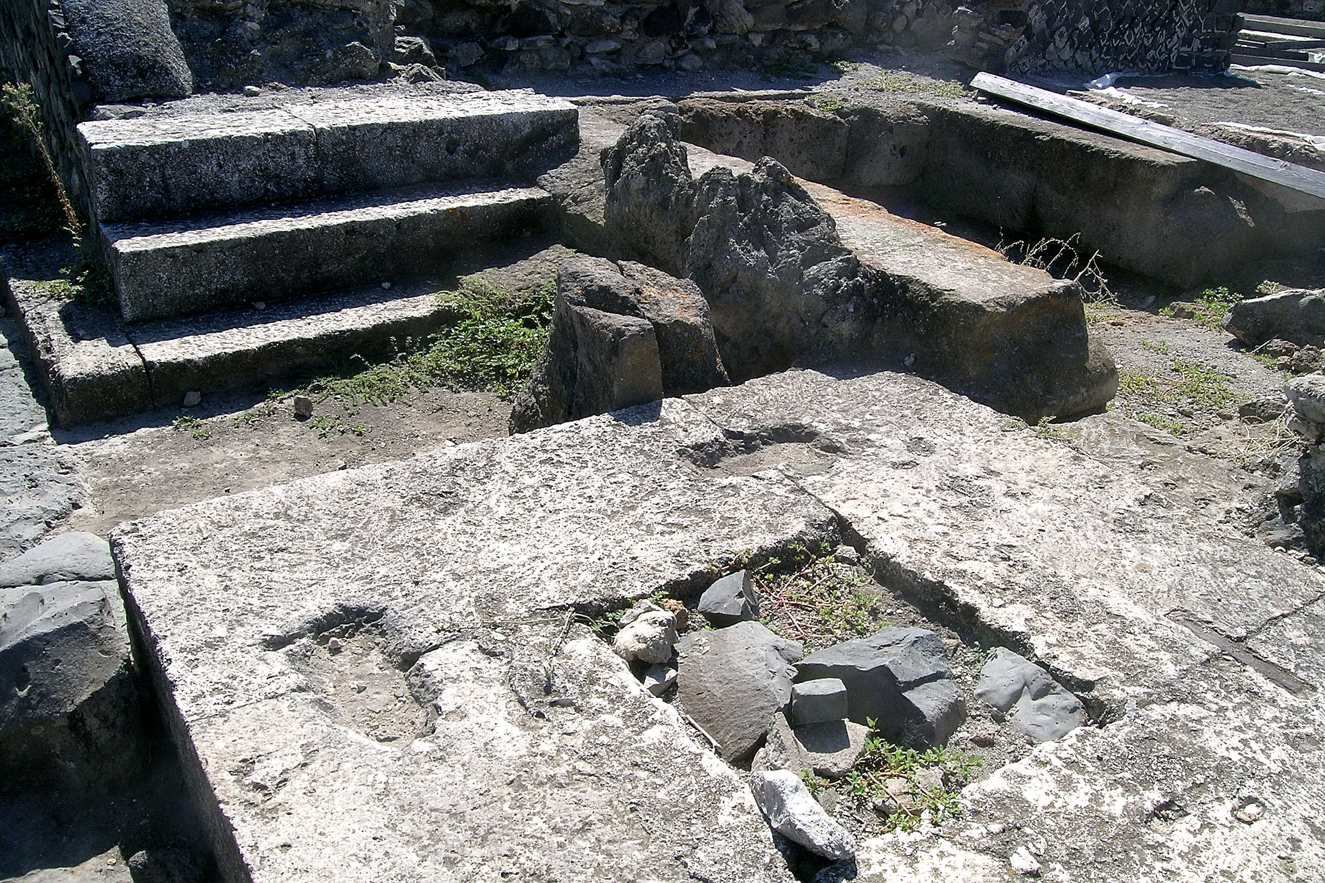 Ruins in Vulci